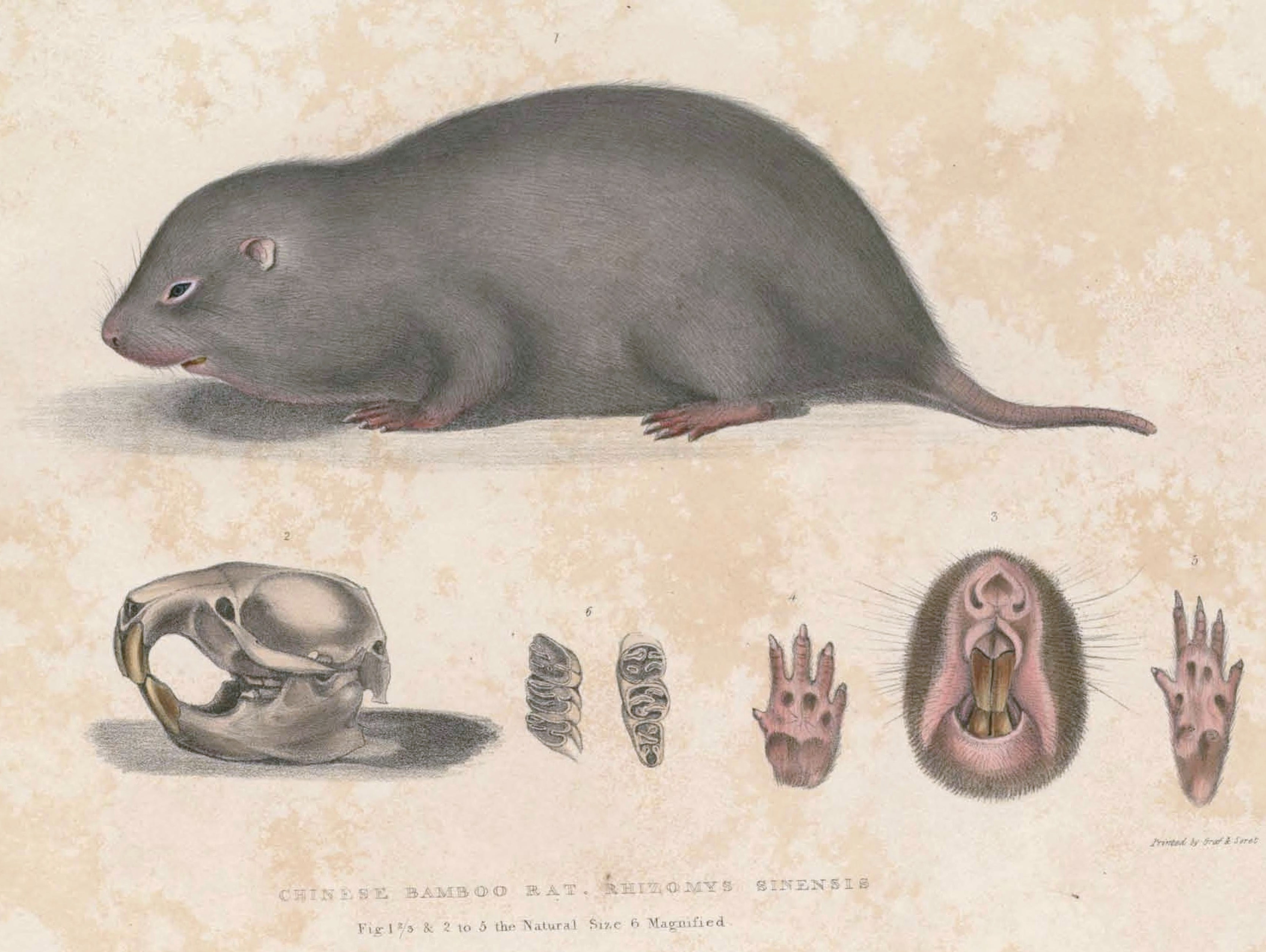 « Rhizomys sinensis » = Rhizomys sinensis (Chinese Bamboo Rat)